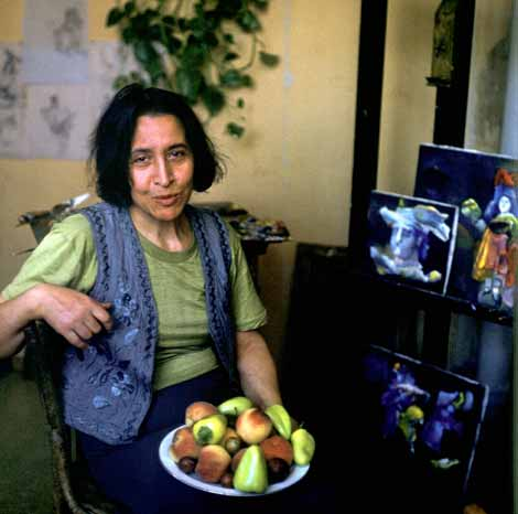 Gayane Khachaturian at her home in Tbilisi, 1985